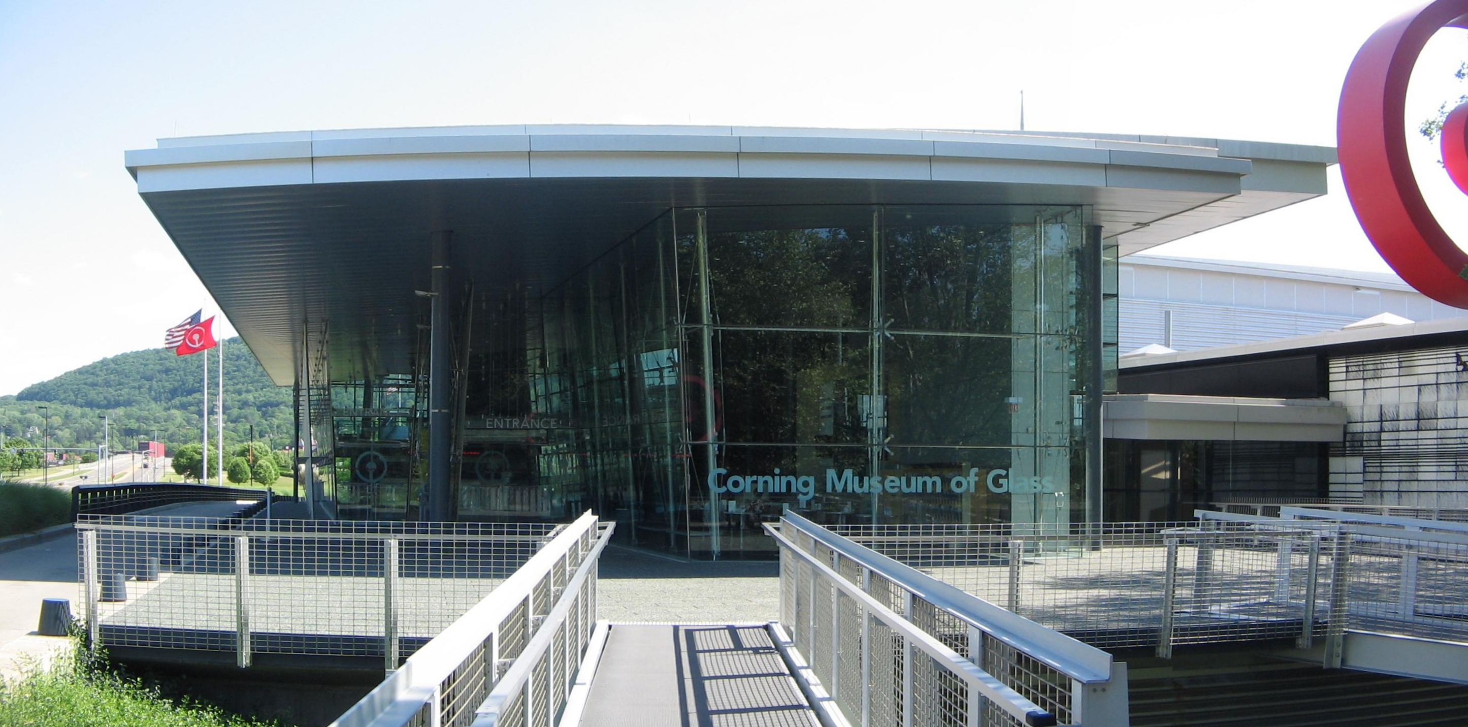 Entrance to the Corning Museum of Glass in Corning, New York, USA.